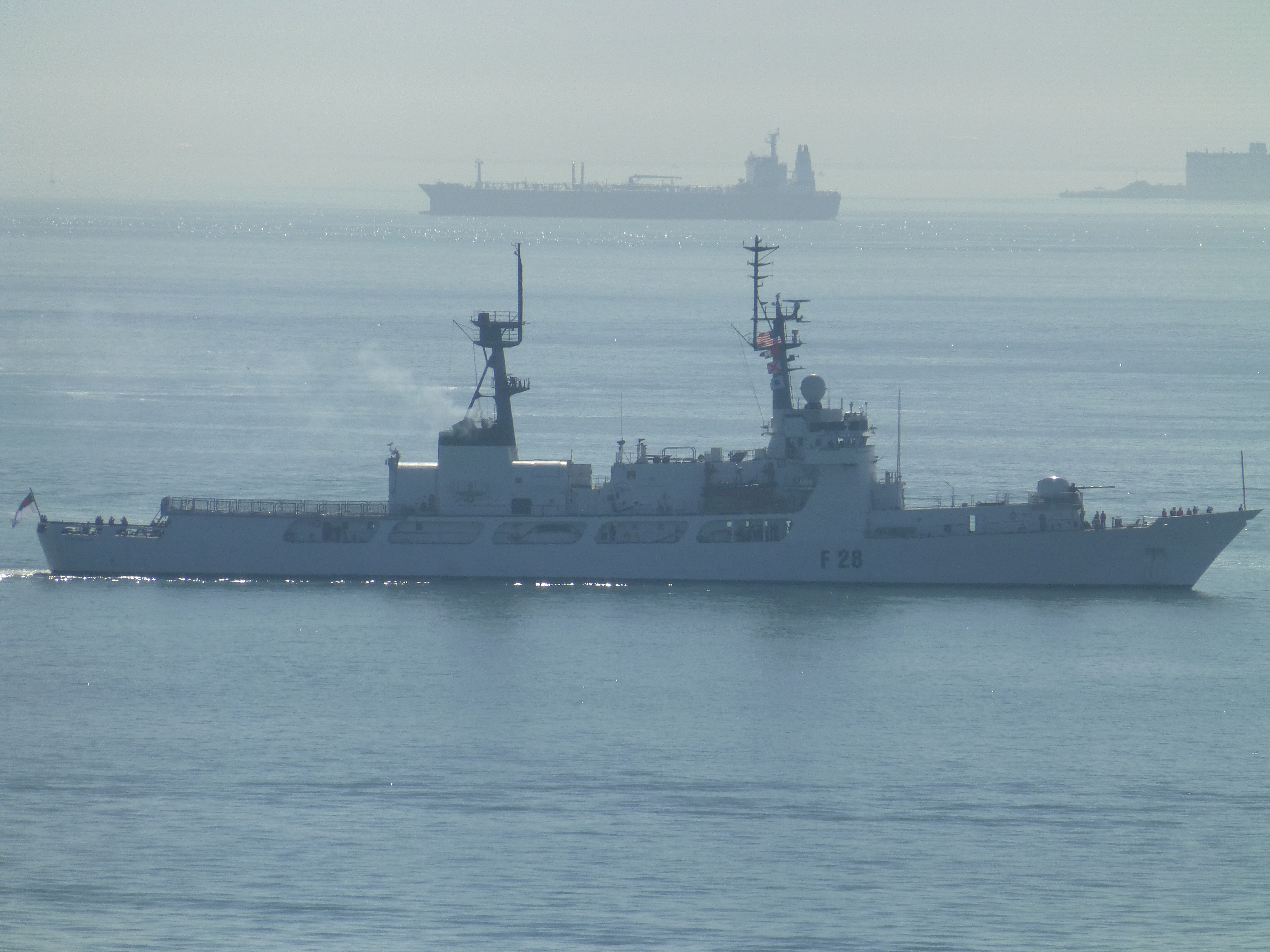 former U.S. Coast Guard Cutter Jarvis is transferred to the Bangladesh navy as BNS Somudra Joy (F-28). This is her under way in San Francisco Bay, on her way to Chittagong, Bangladesh.